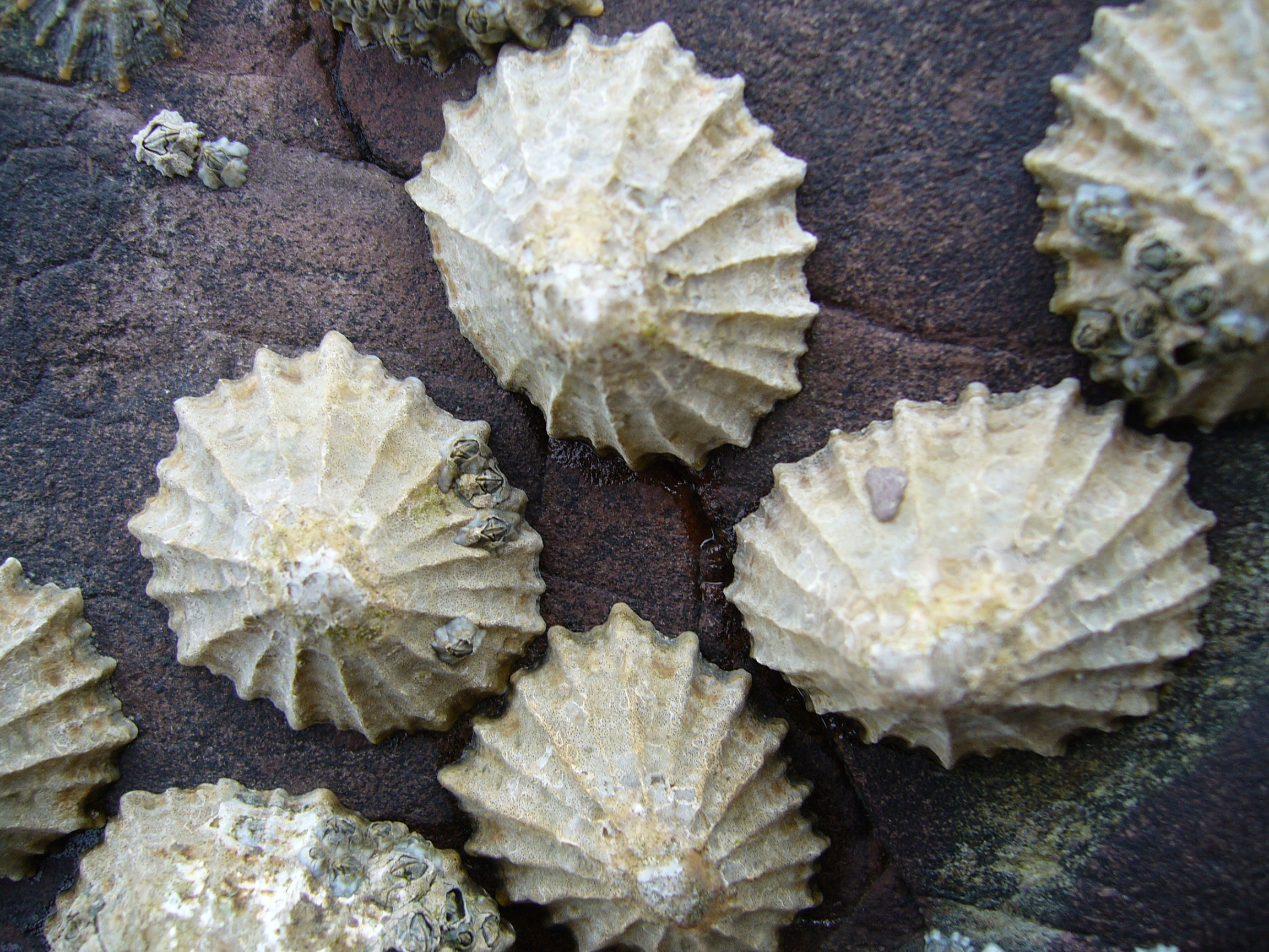 A group of common limpets (Patella vulgata) in Pembrokeshire, Wales